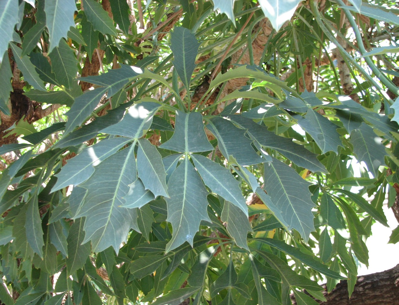 Cussonia spicata, Cussonia Court, The University of Melbourne, Australia.